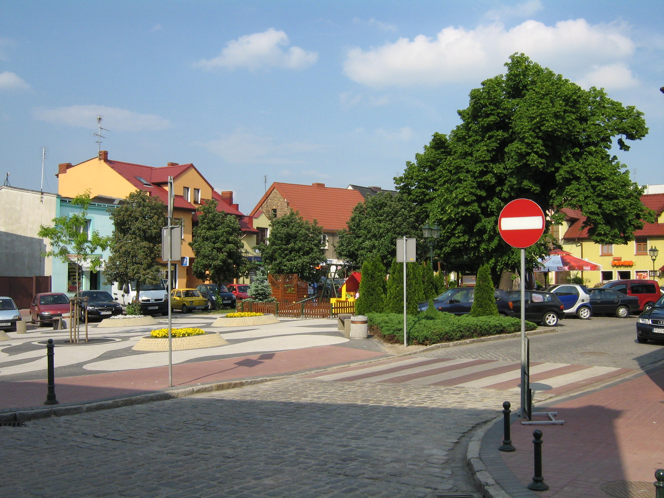 Springtime of Nations Square in Grodzisk Wielkopolski (Poland)